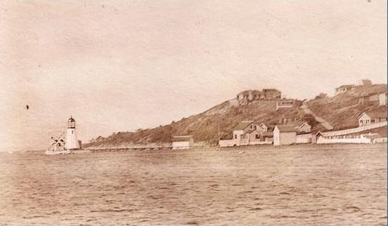 This is a 1910 postcard image of Prudence Island, Rhode Island.